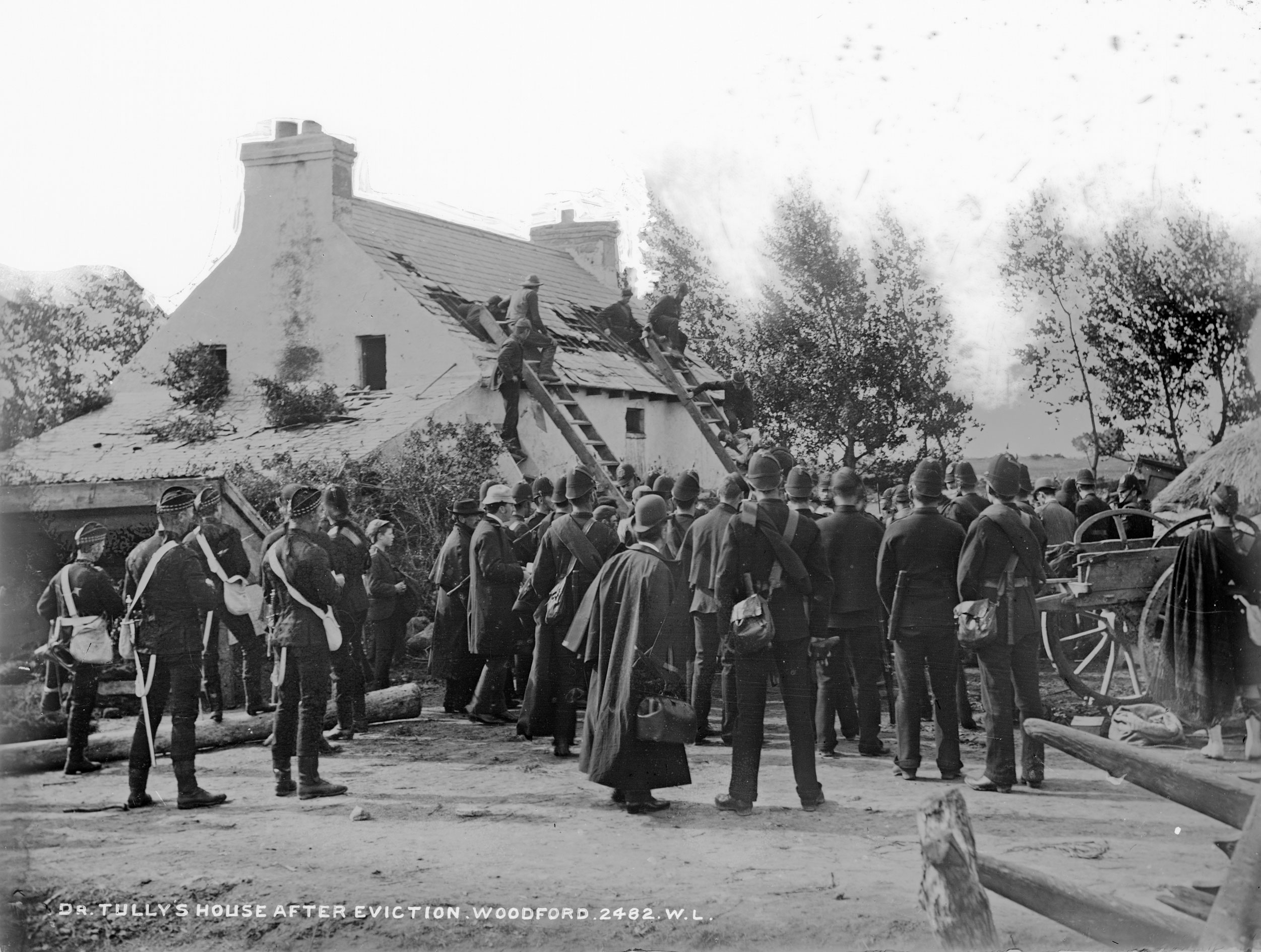 An eviction on the land of the Marquis of Clanricarde at Woodford, Co.Galway. Farmer and boatbuilder, Francis Tully, known locally as “Dr Tully”, was an activist for the Plan of Campaign in Galway. The Plan of Campaign was an attempt to gain lower rents through collective bargaining, because prices for agricultural exports had fallen dramatically in the 1880s. Maud Gonne agitated for change by projecting images like this one onto a building in Parnell Square, Dublin. Read through the comments below for fantastic background to this photo... Date: Saturday, 1 September 1888 NLI Ref.: L_ROY_02482